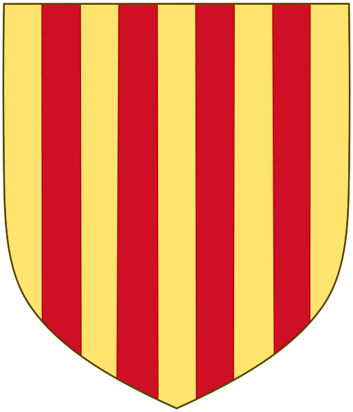 This is coat of arms is from County of Barcelona